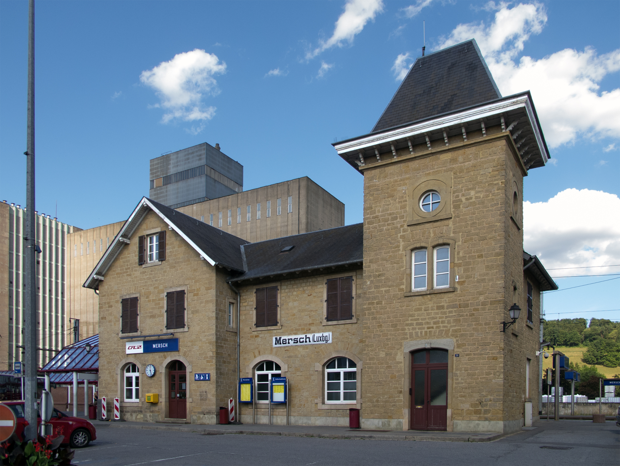 Building of the Mersch train station